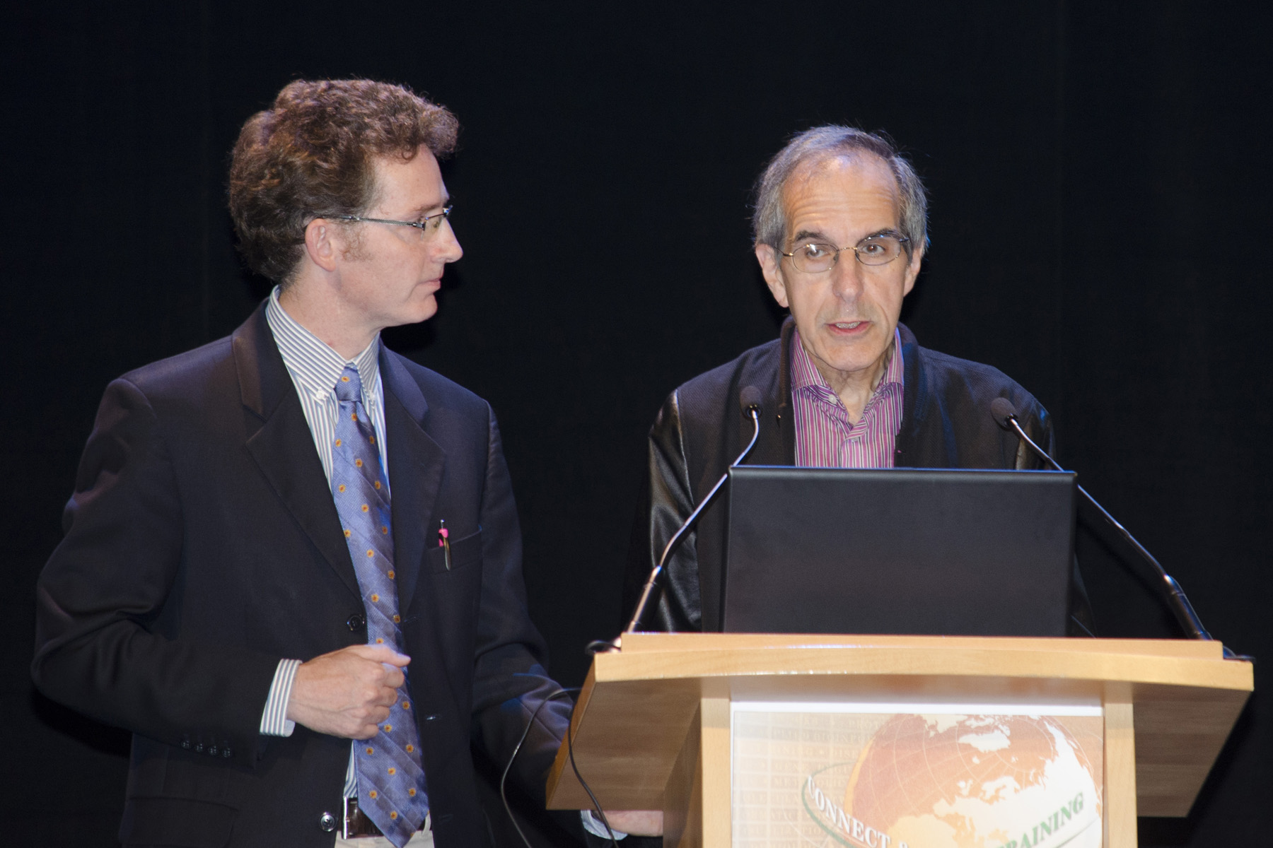 Alex Bateman (left) and Cyrus Chothia (right), at the Intelligent Systems for Molecular Biology conference in 2015